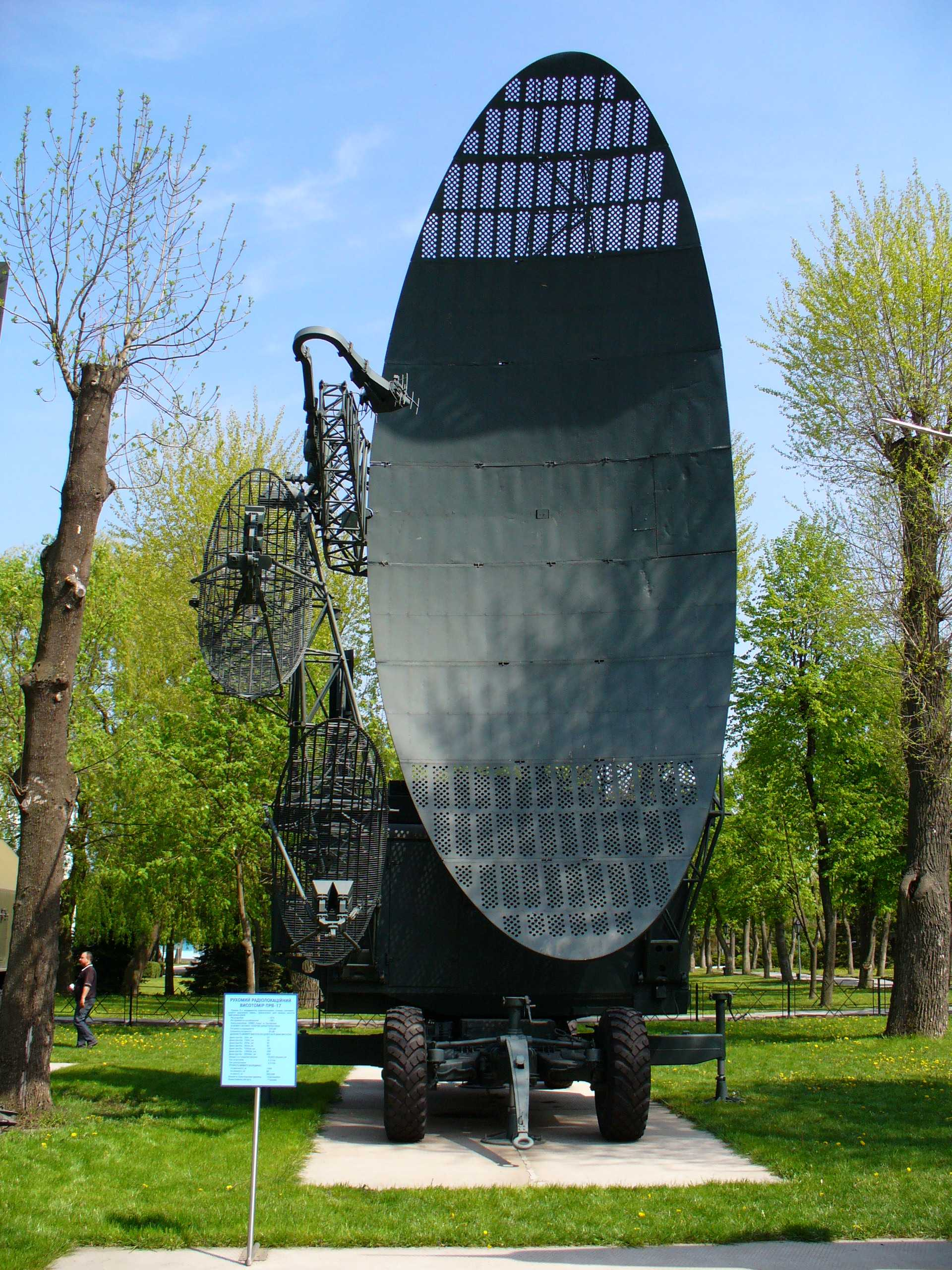 A Soviet Mobile Radar Height Finder PRV-17 (GRAU index 1RL141)